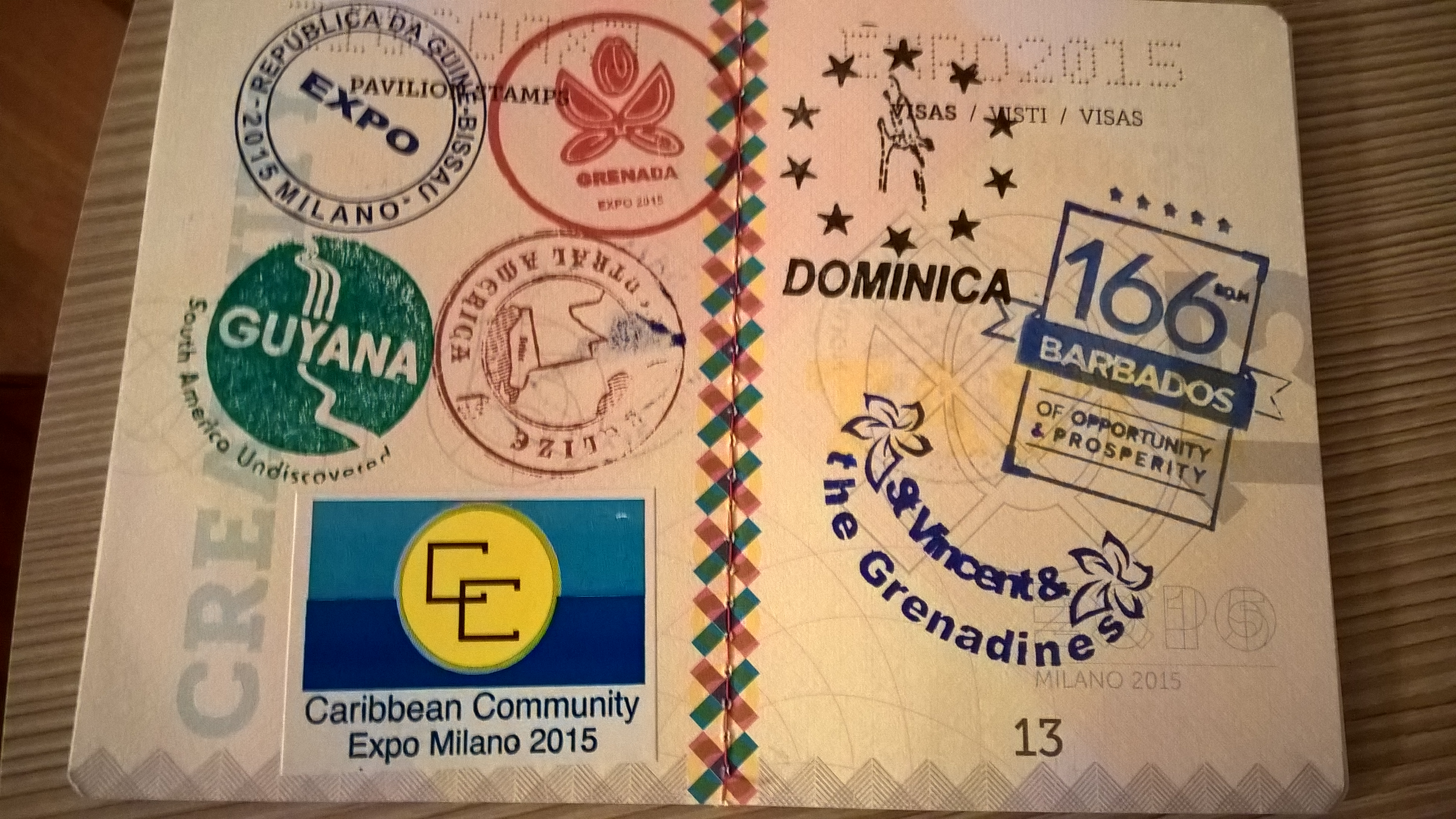 Expo 2015 Milano passport with the stamps of Caribbean Community and its members participating in the Islands cluster.